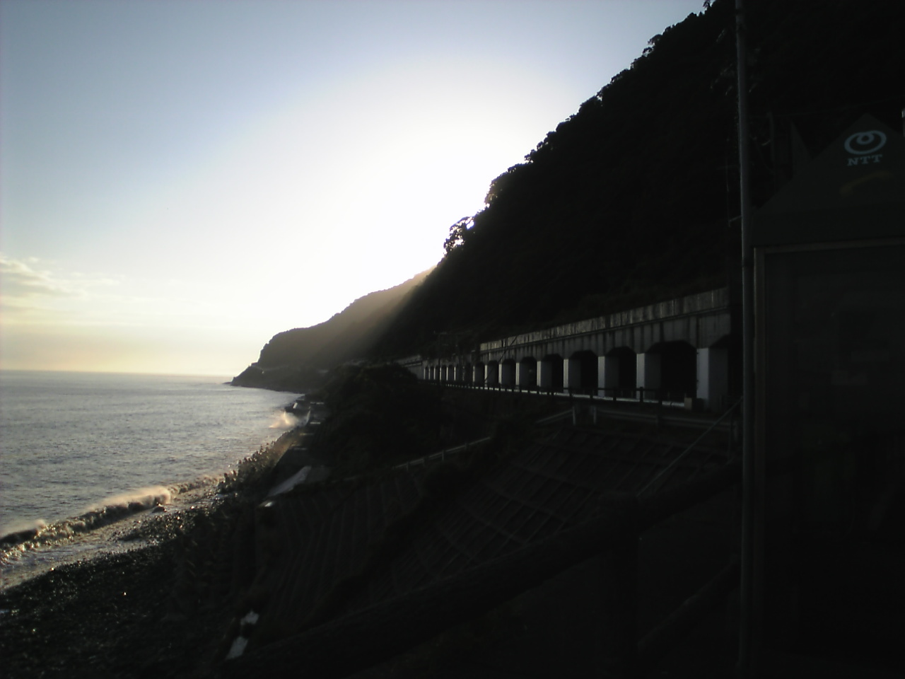 Oyashirazu Coast